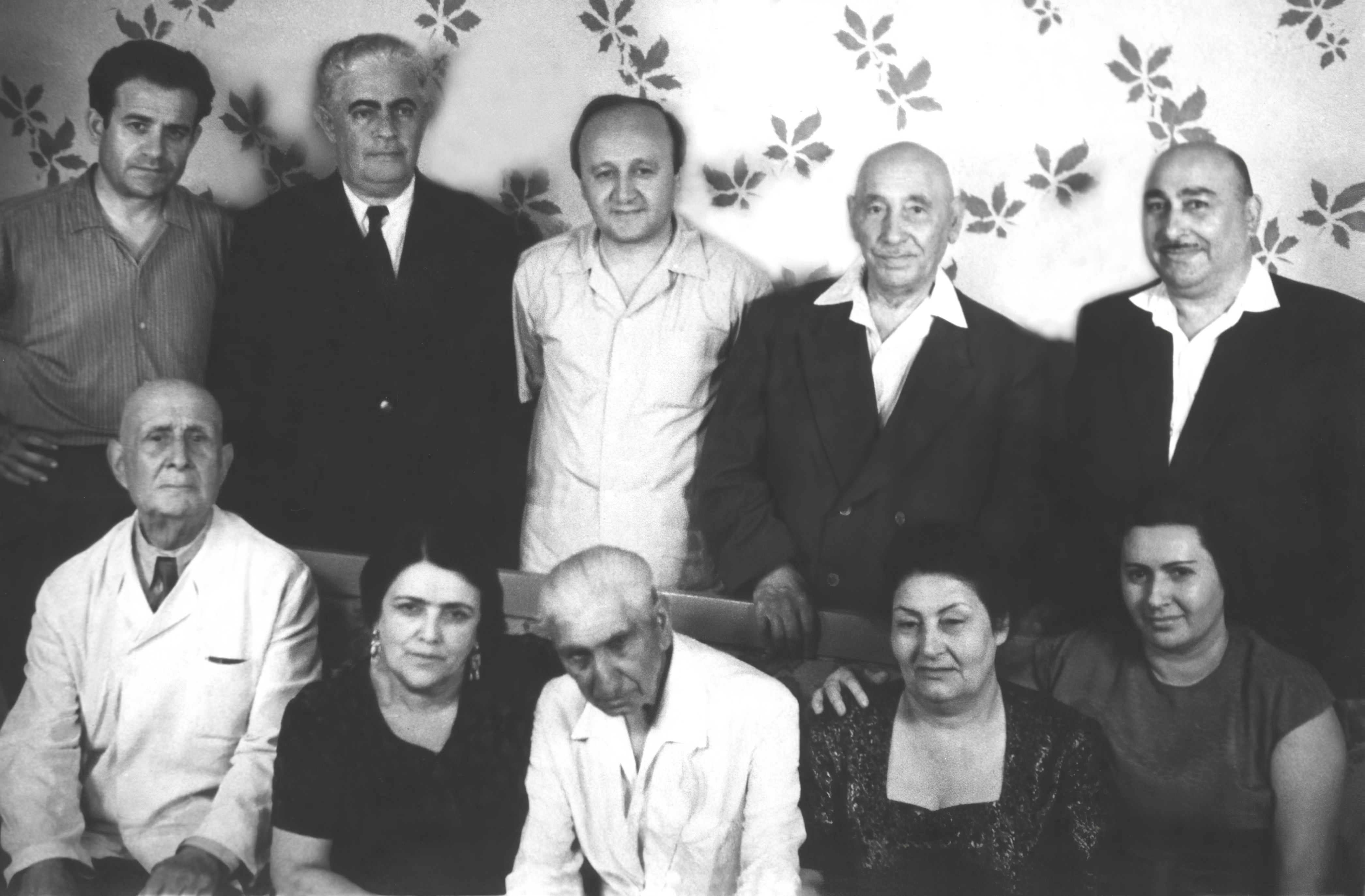 Khan Shushinsky, Fikret Amirov, Gurban Pirimov, Bahram Mansurov, Mirza Mansur Mansurov, Yaver Kelenterli, Seyid Shusinski, Hagigat Rzayeva, Munavvar MansurovaAzərbaycanca: Xan Şuşinski, Fikrət Əmirov, Qurban Pirimov, Bəhram Mansurov, Mirzə Mansur Mansurov, Yavər Kələntərli, Seyid Şuşinski, Haqiqat Rzayeva, Münavvər Mansurova